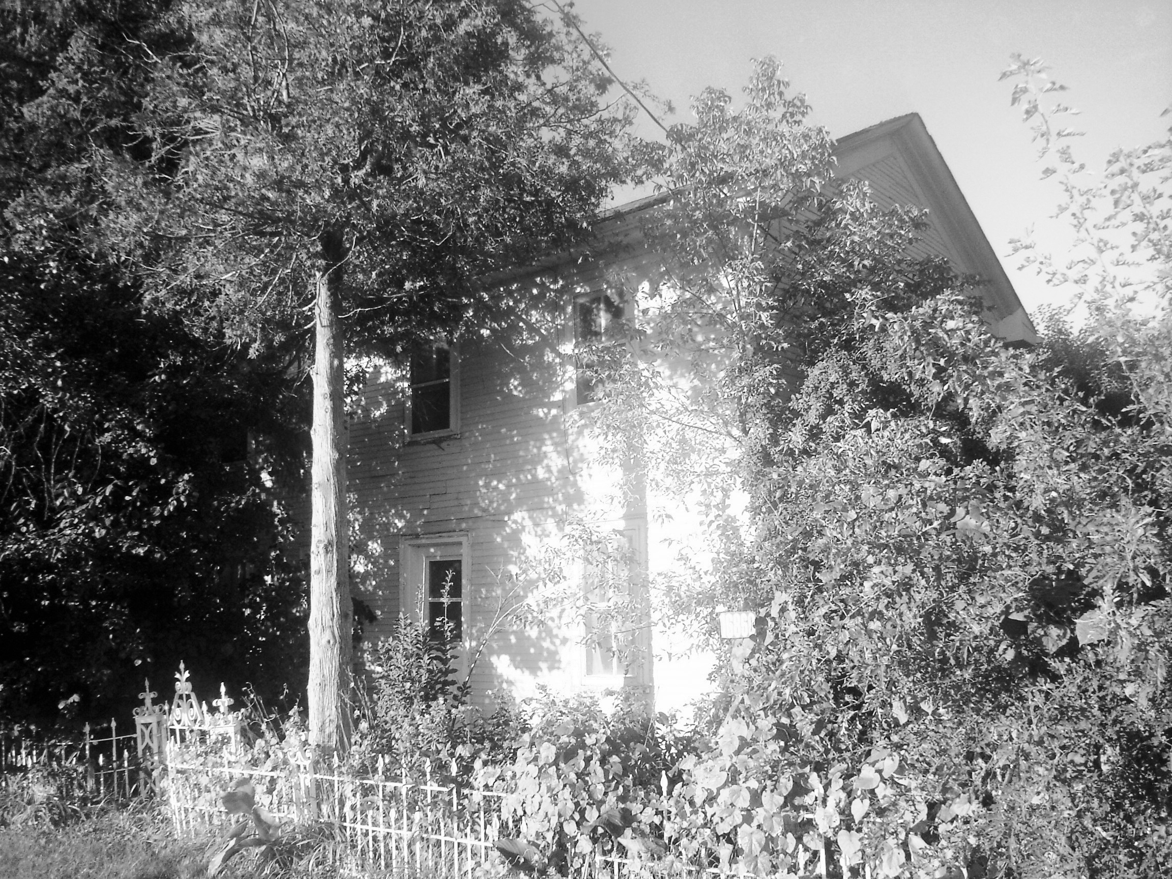 Three-quarter view of the house, colours adjusted in GIMP and converted to black and white, to give an "old-time" feel to the picture. Given that the house is 200 years old, it seems appropriate. Per the website "The two storey frame dwelling is clad in narrow clapboard and rests on a stone rubble foundation. The four bay façade is offset by a single leaf front door. Although most windows have been re-sashed with sashes of two panes over two, an earlier window in the tail wing is twelve panes over eight. The shallow pitched gable roof is oriented with the gable ends on the sides of the house. Below the plain fascia and soffit of the roof is a plain frieze. A single chimney remains at the peak of the south gable end of the roof. A one storey tail wing, constructed of red brick, projects to the rear of the building."